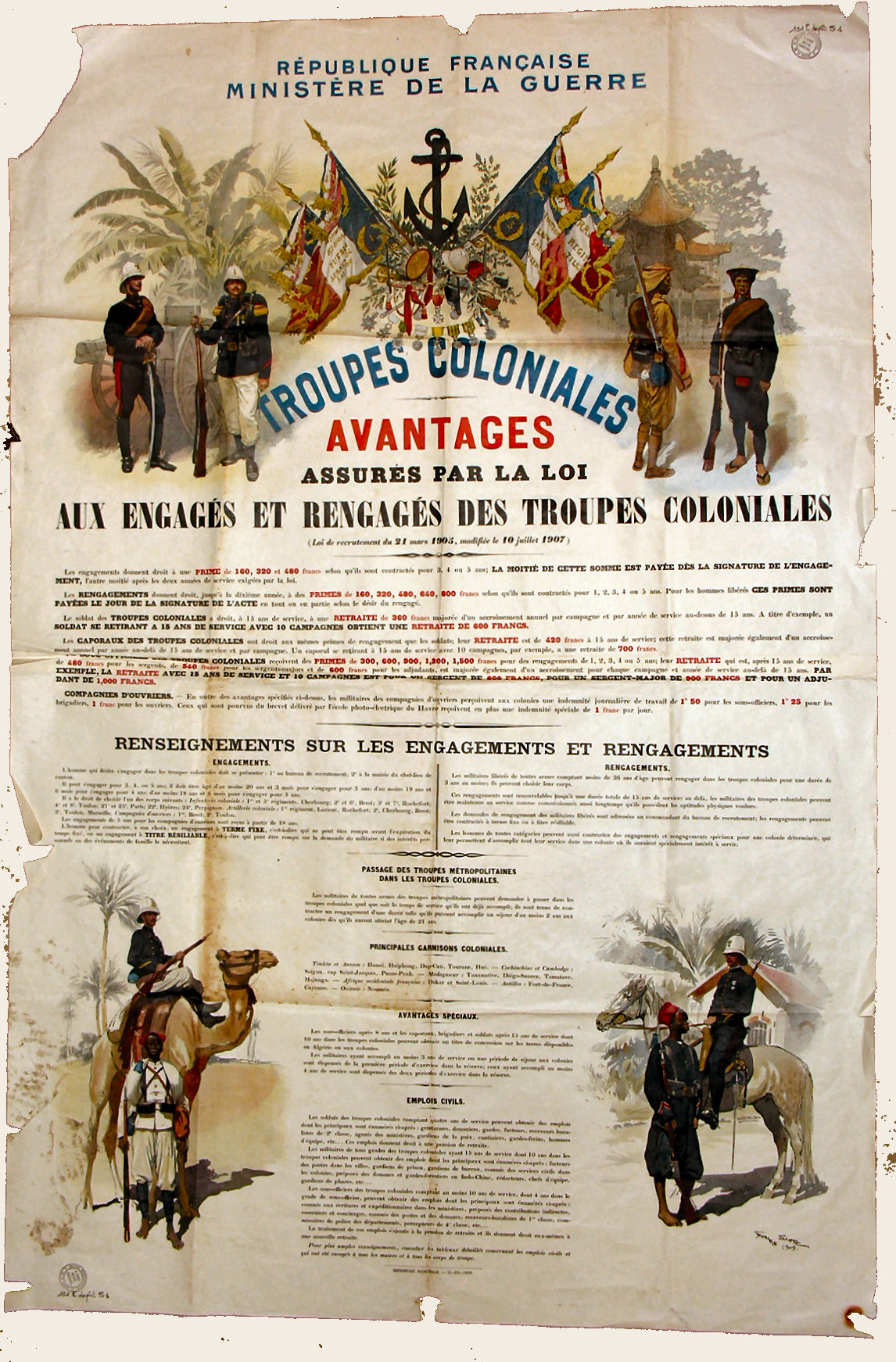 French Marines recruitement poster